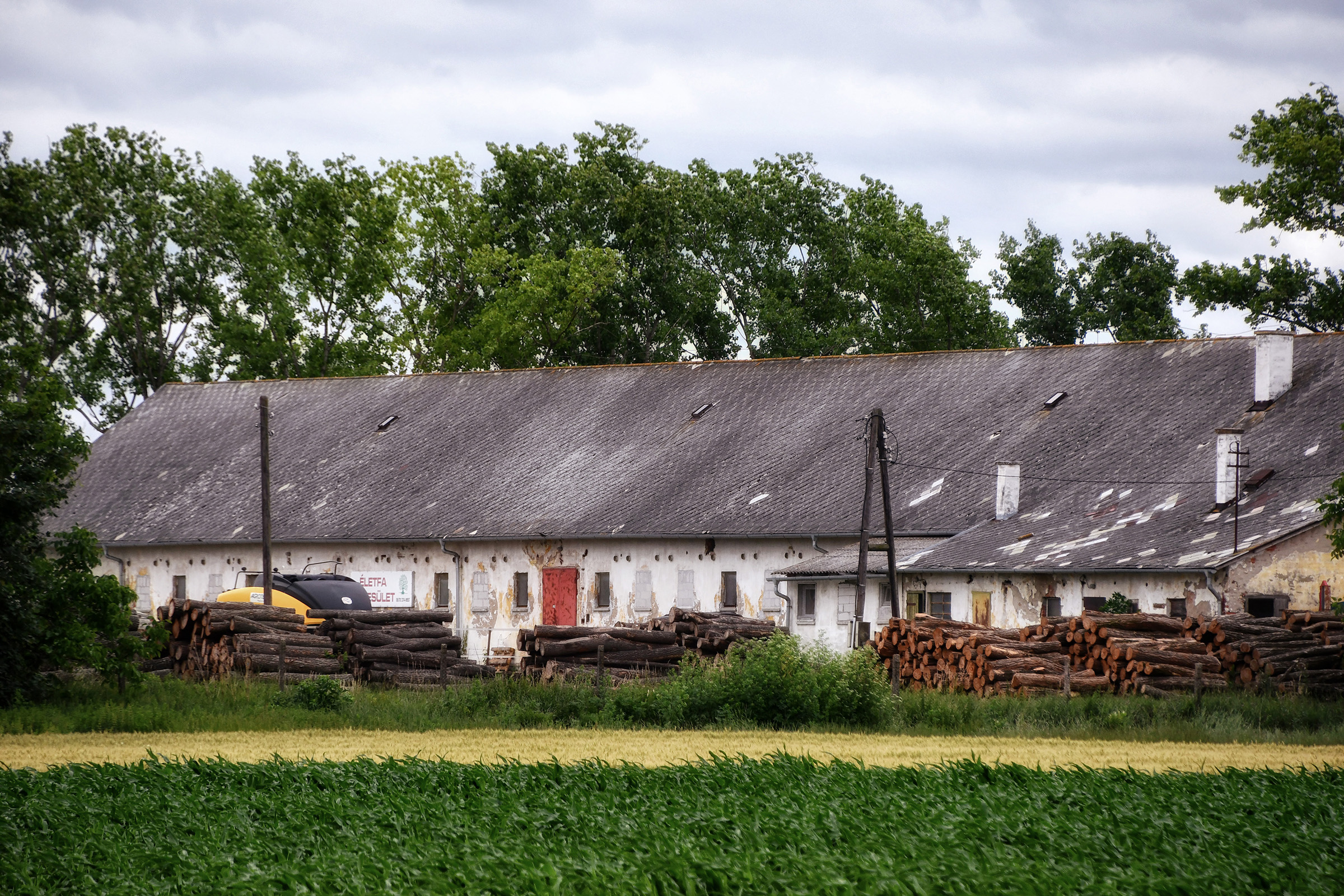 An abandoned building of the former socialist agricultural cooperative in Abda, Hungary